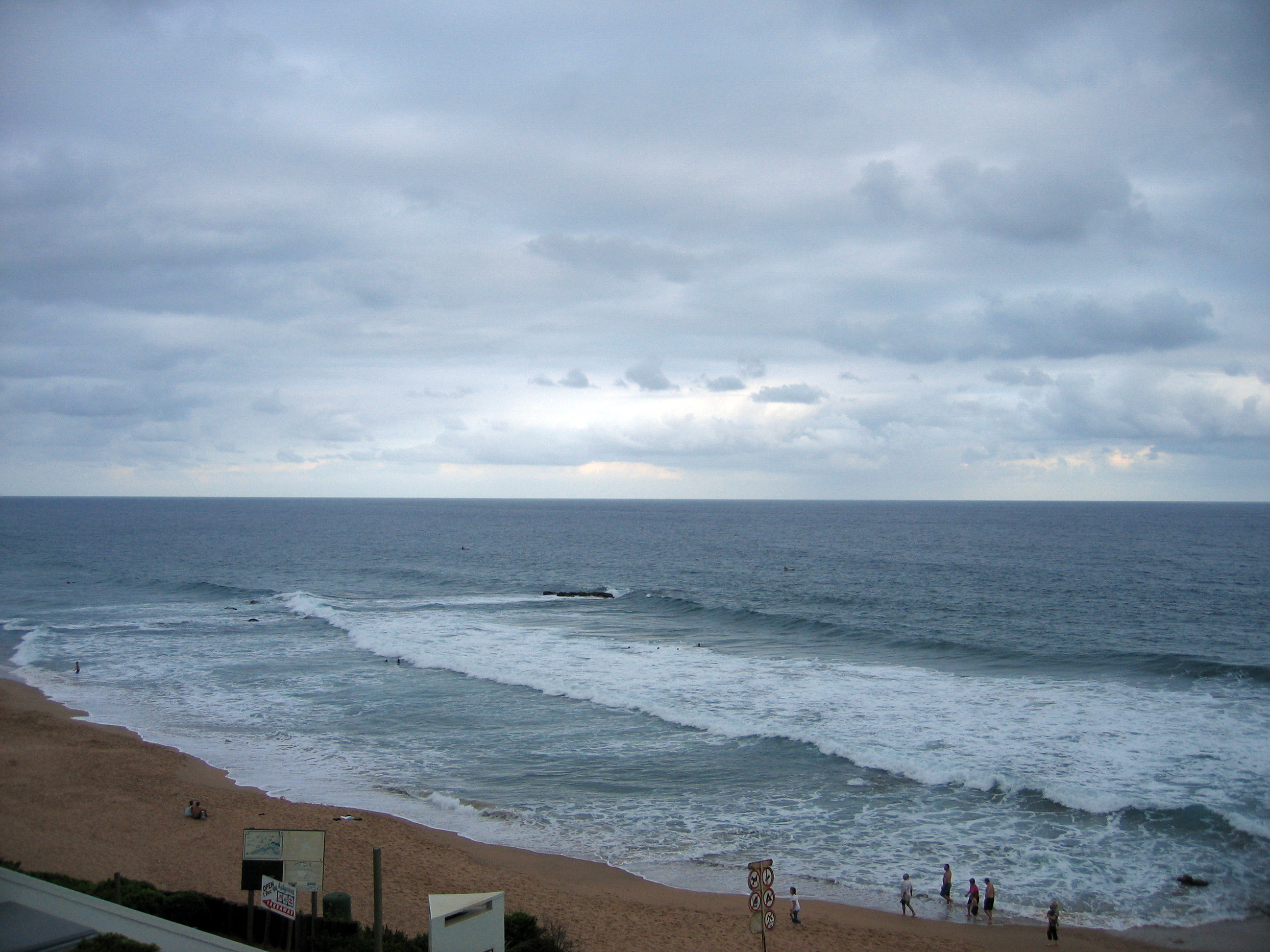 Ballito South Africa beach view